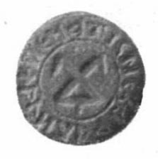 Seal of Radič Sanković, dated 15 April 1391.